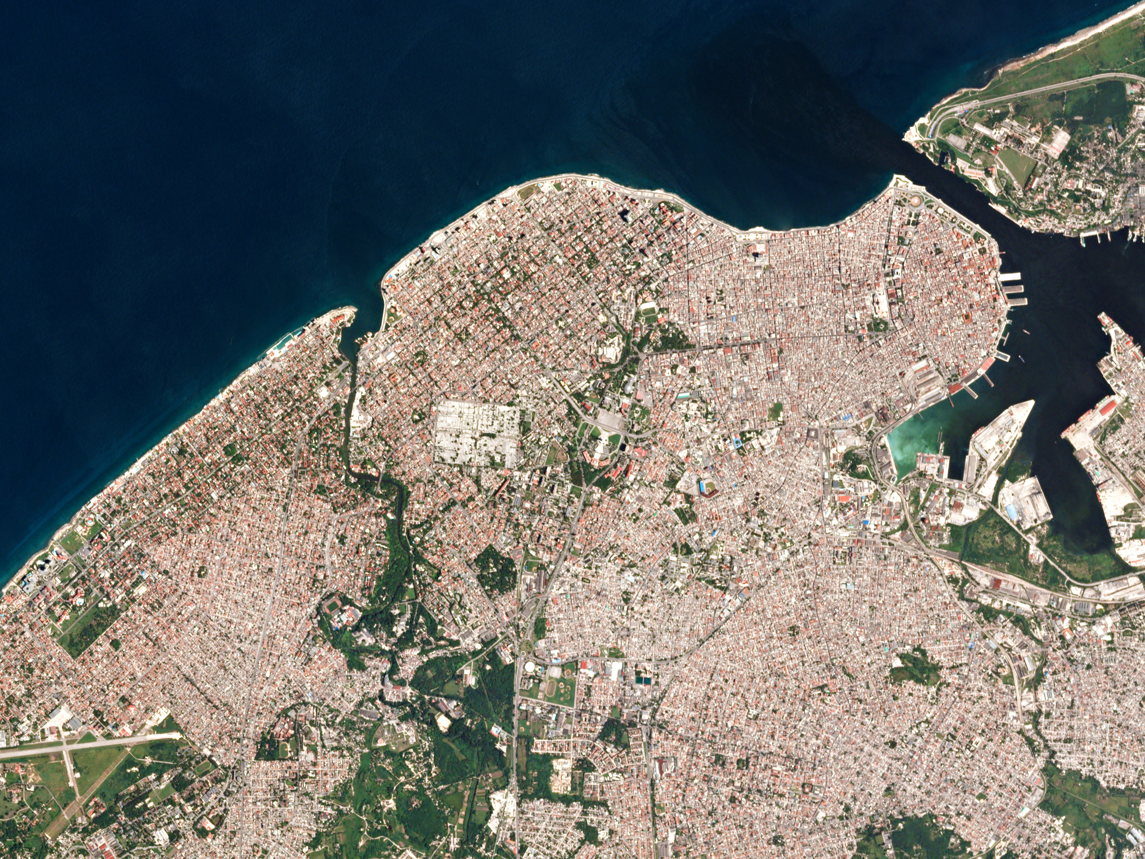 Havana, Cuba September 3, 2016 The narrow streets and small plazas of Havana’s historic quarter (right)—a UNESCO World Heritage Site established in the 16th Century—contrast with the wider, tree-lined, streets of the Vedado business district to the west which was built in the 20th century (left).